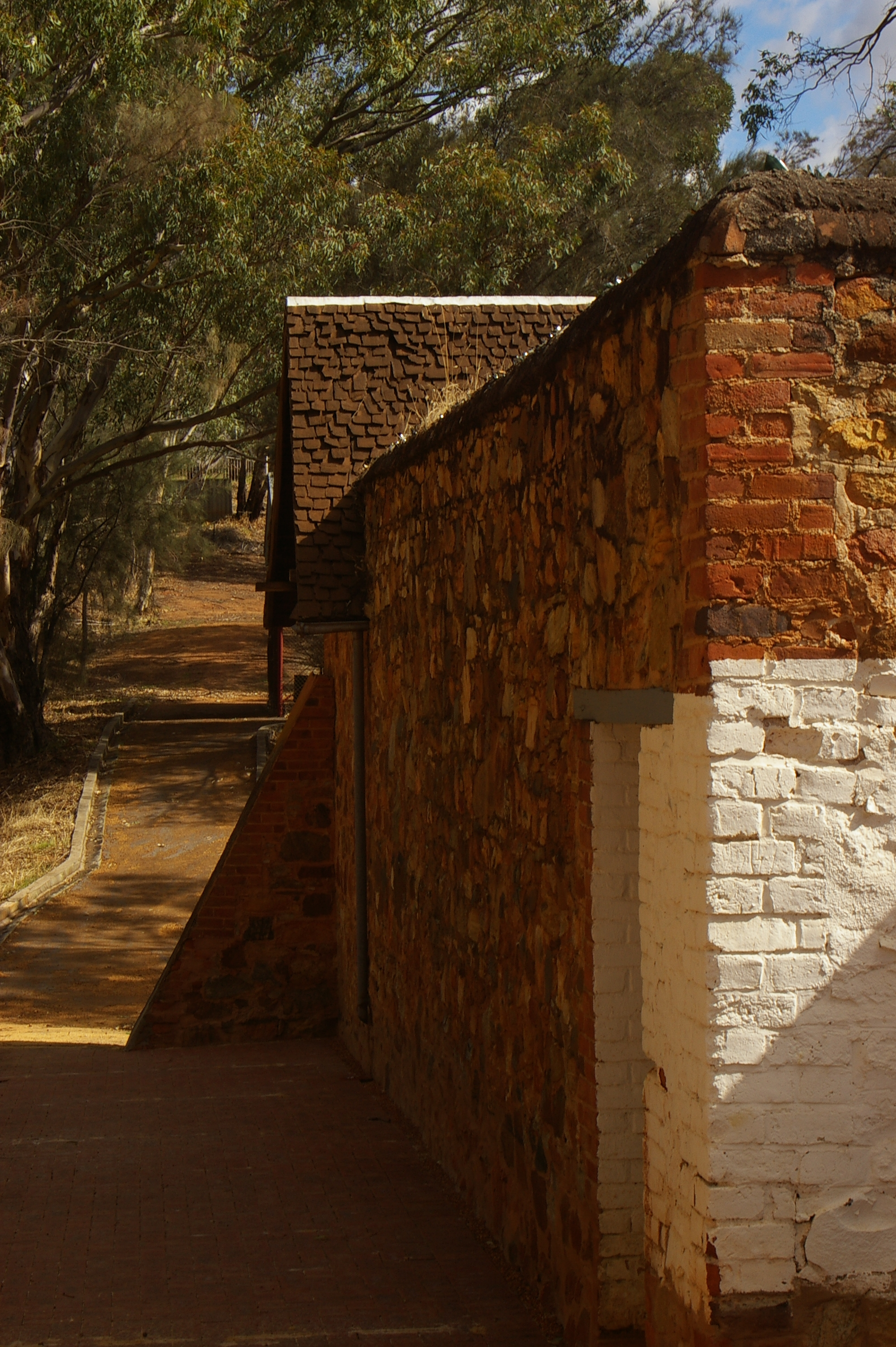 External side view of the Old gaol, now museum in Toodyay built 1864-65